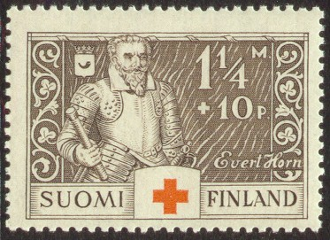 Postage stamp depicting the Finnish field marshal Evert Horn